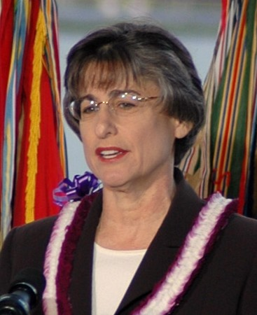 Original caption: "061207-N-4965F-028 Pearl Harbor, Hawaii (Dec. 7, 2006)- The Honorable Linda Lingle, Governor of the State of Hawaii, delivers her comments during a joint U.S. Navy/National Park Service ceremony commemorating the 65th Anniversary of the attack on Pearl Harbor. More than 1,500 Pearl Harbor survivors, their families and friends from around the nation joined more than 2,000 distinguished guests and the general public for the annual observance."